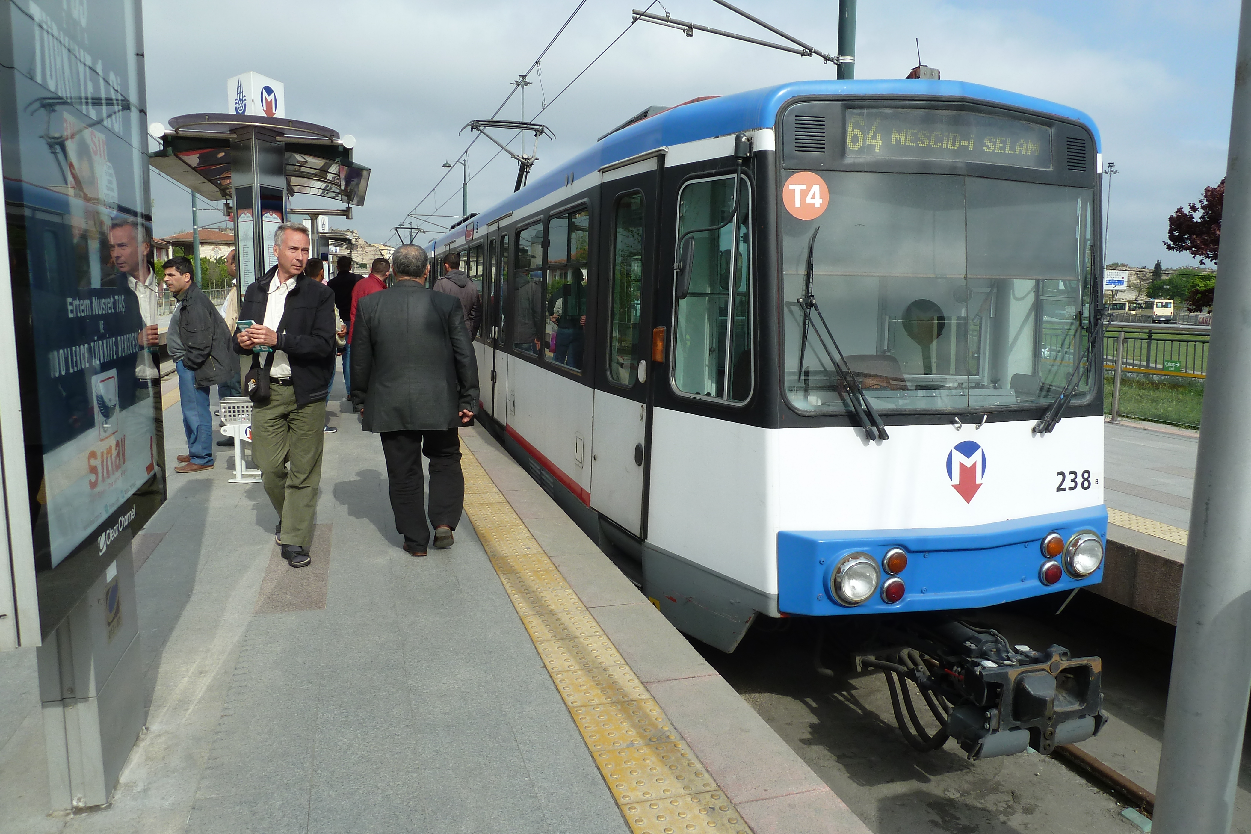 Düwag KTA tram at Topkapı Station